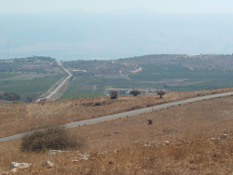 Northern road in Israel between Koach junction and Sasa. כביש הצפון בישראל בין צומת כח לסאסא